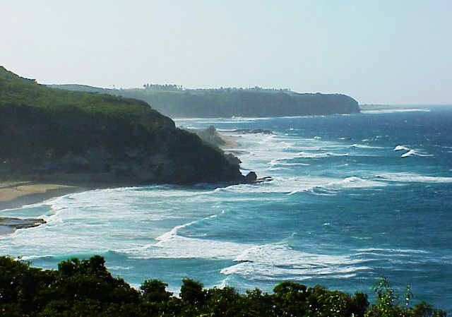 View of the train tunnel and coast at Quebradillas, Puerto Rico